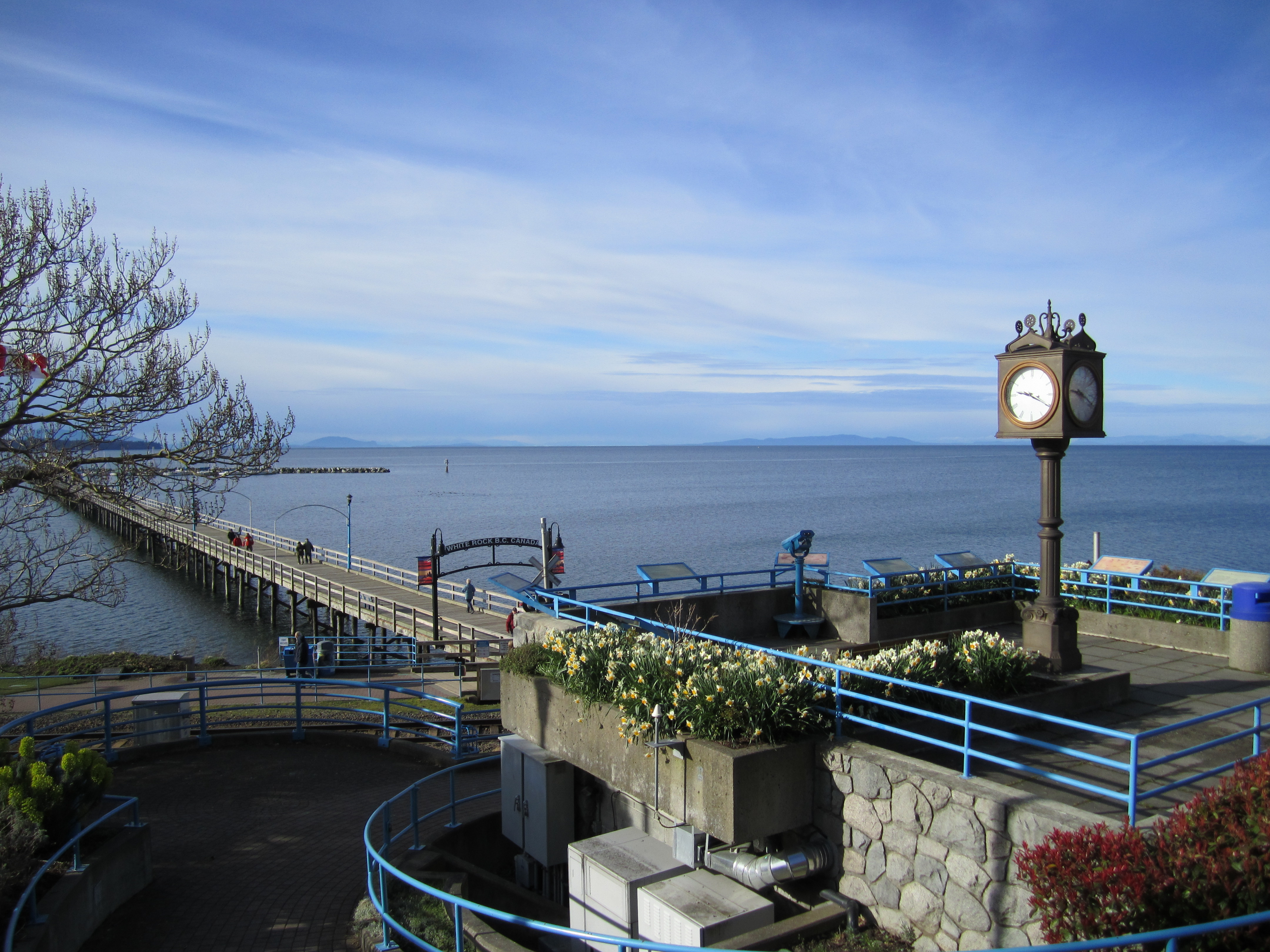 Clock, lookout platform, and pier in the background. March 26th, 2011. White Rock Pier, Semiahmoo Bay, White Rock, British Columbia, Canada.